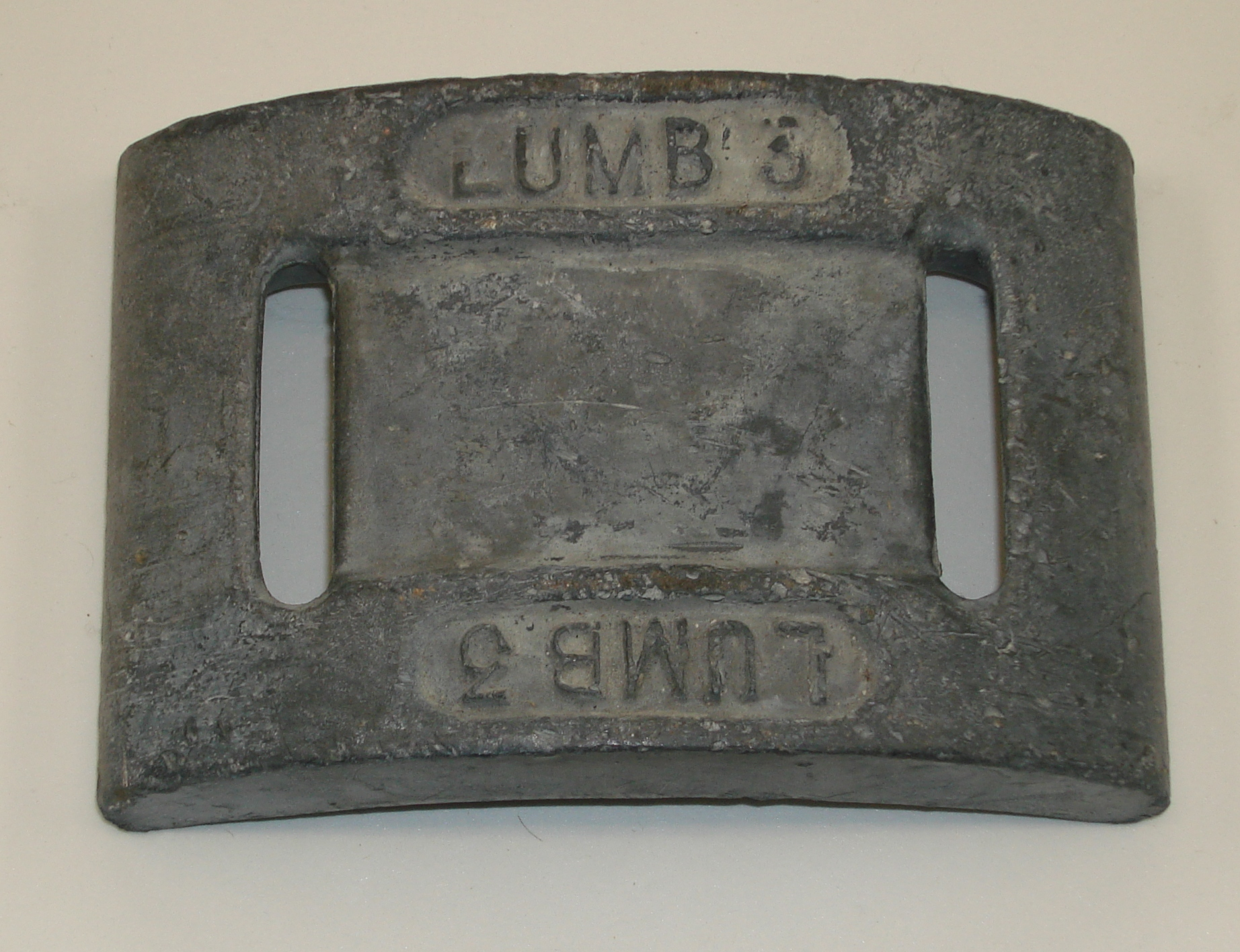 3 kilograms Scuba diving weight made probably of lead